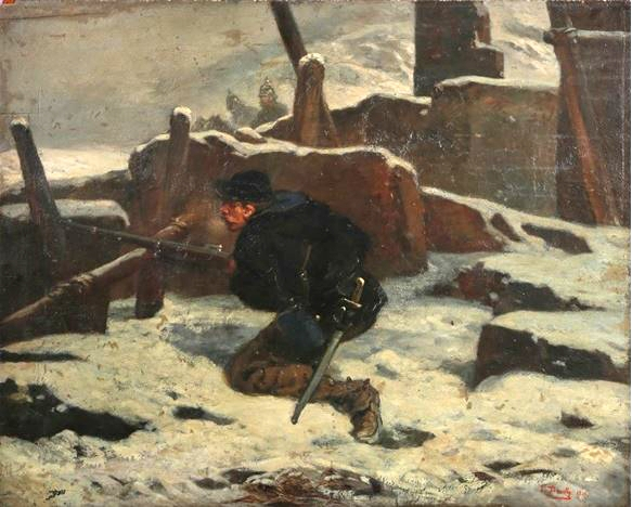 Infantryman Ambushed in the Snow